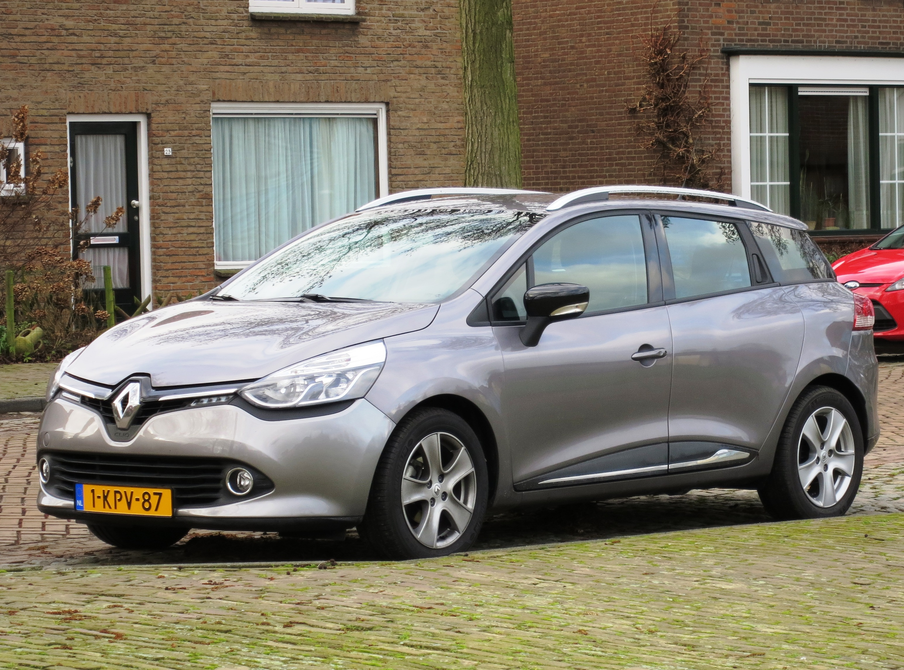 Renault Clio Kombi Aardenburg